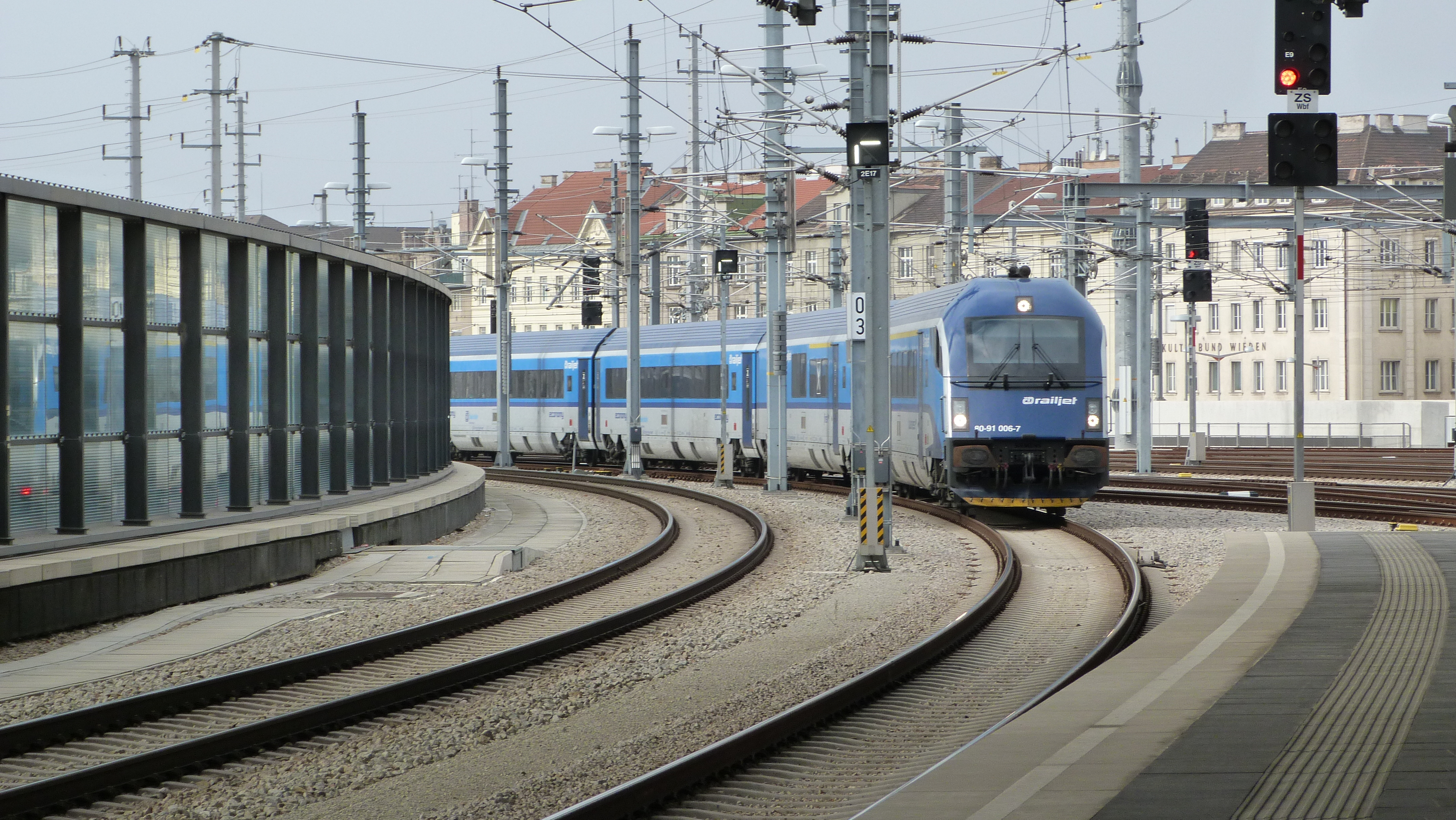 ČD Railjet, Vienna Main Station